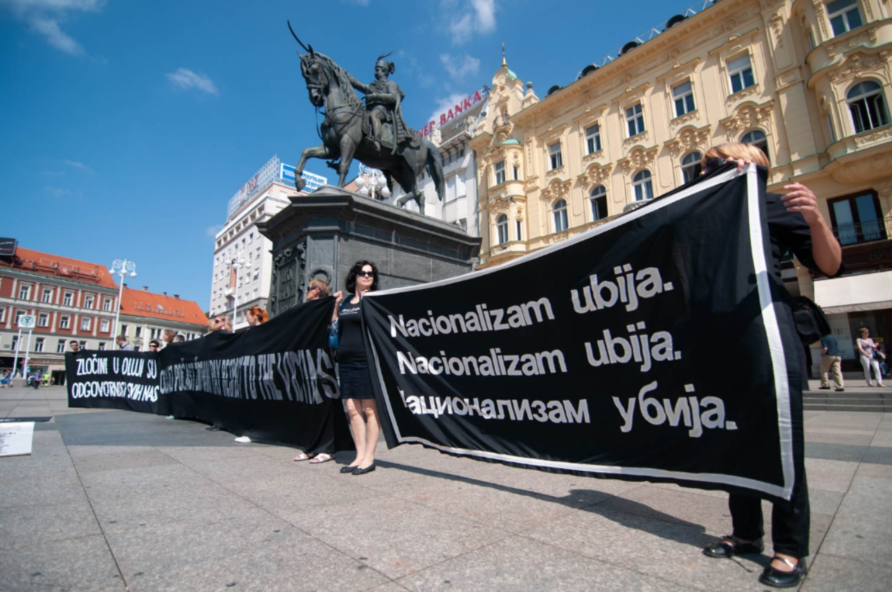 Protest of croatian civil society in Zagreb